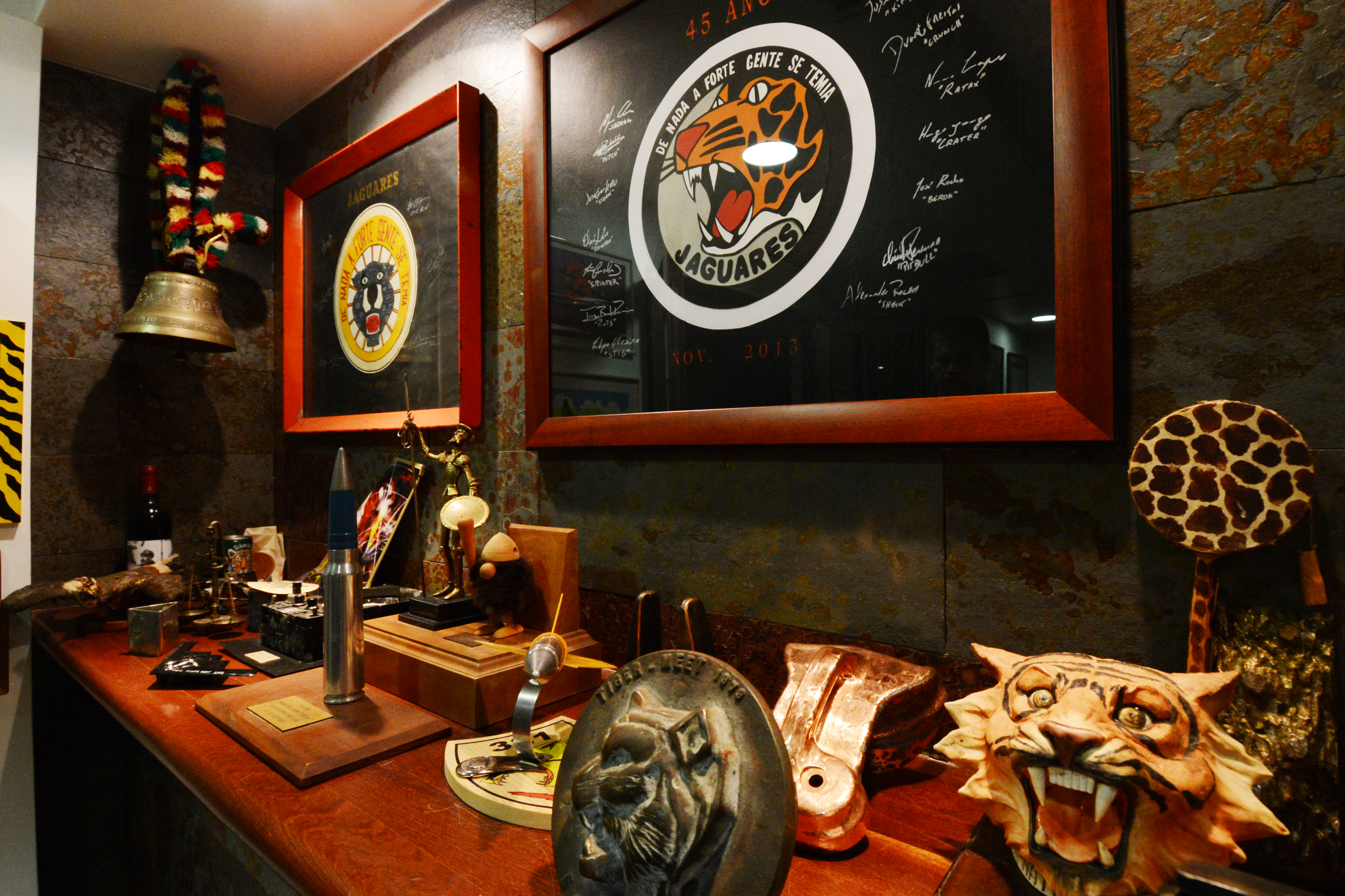 Mementos from the 301st Portuguese Fighter Squadron cover a counter in the Jaguars heritage room. The Jaguars are one of two fighter squadrons at Monte Real Air Base, Portugal, where REAL THAW takes place annually.